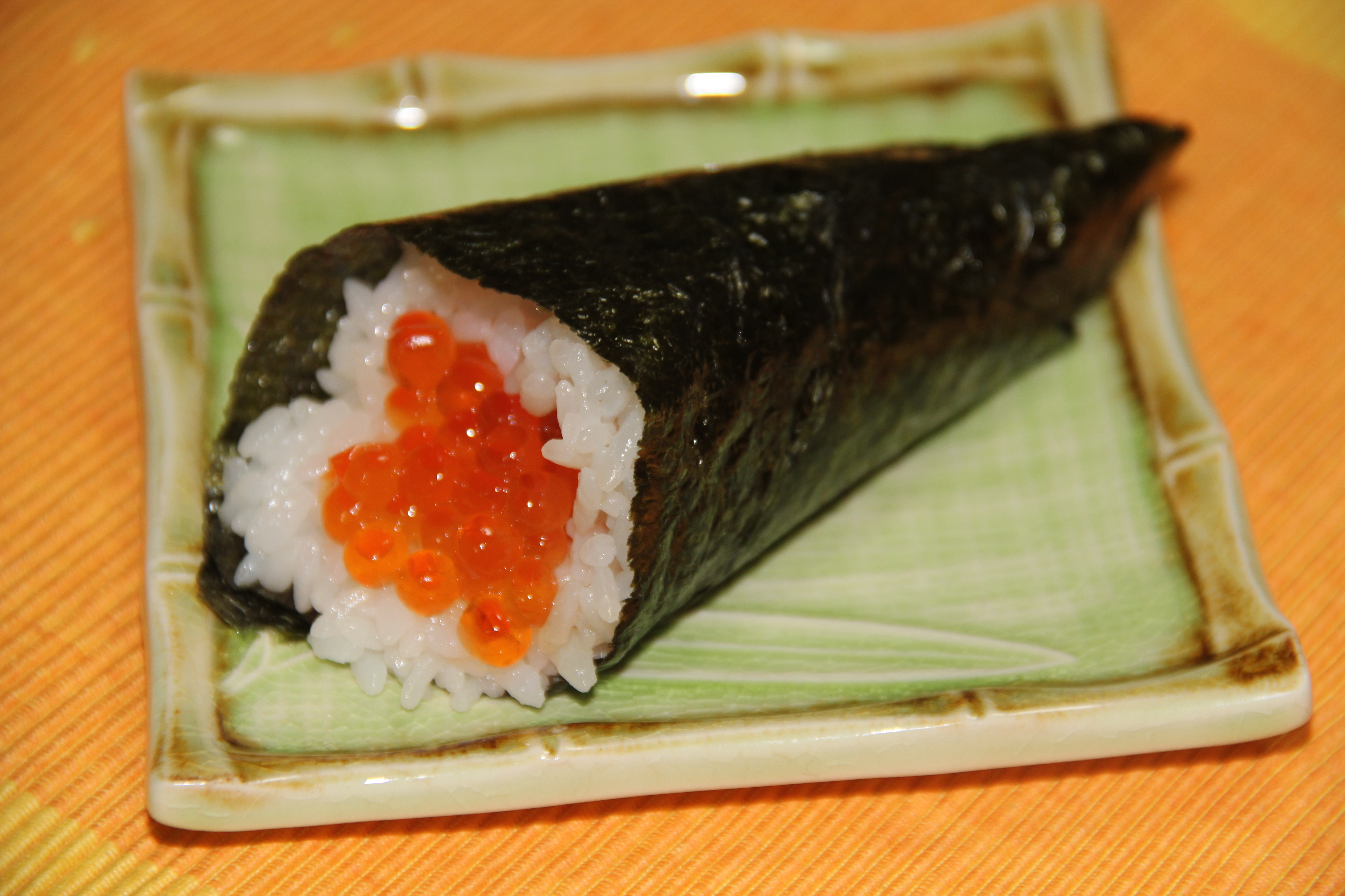 Temaki-zushi